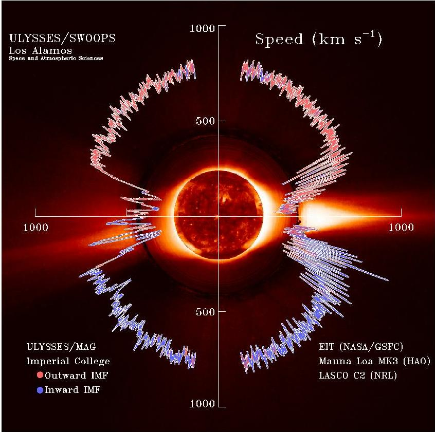 Ulysses (spacecraft) measures the variable speed of the solar wind.